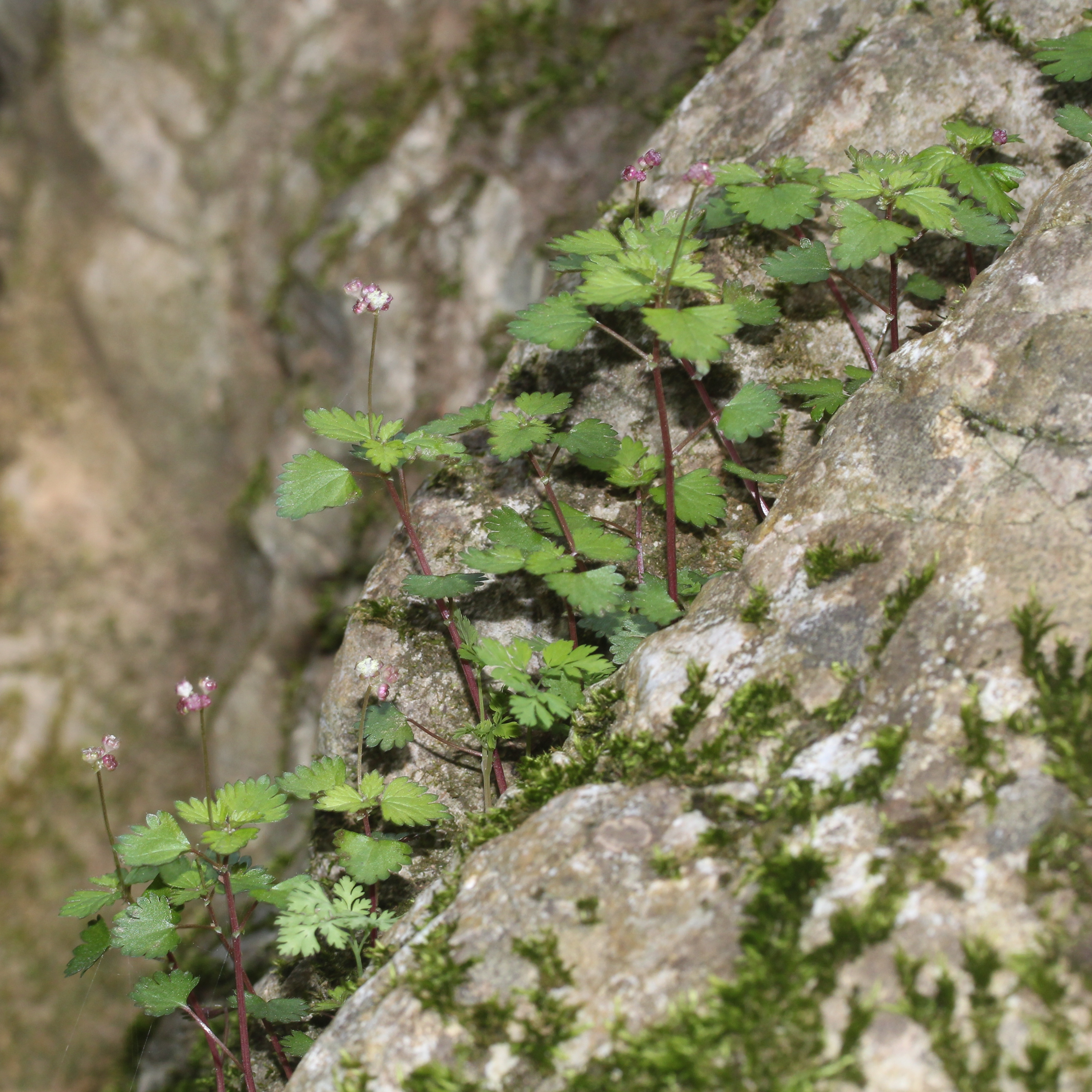 Nanocnide japonica in Mount Fujiwara, Suzuka Mountaiins, Inabe, Mie Prefecture, Japan.